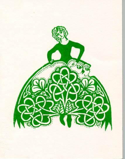 Blodeuwedd transforms into an owl